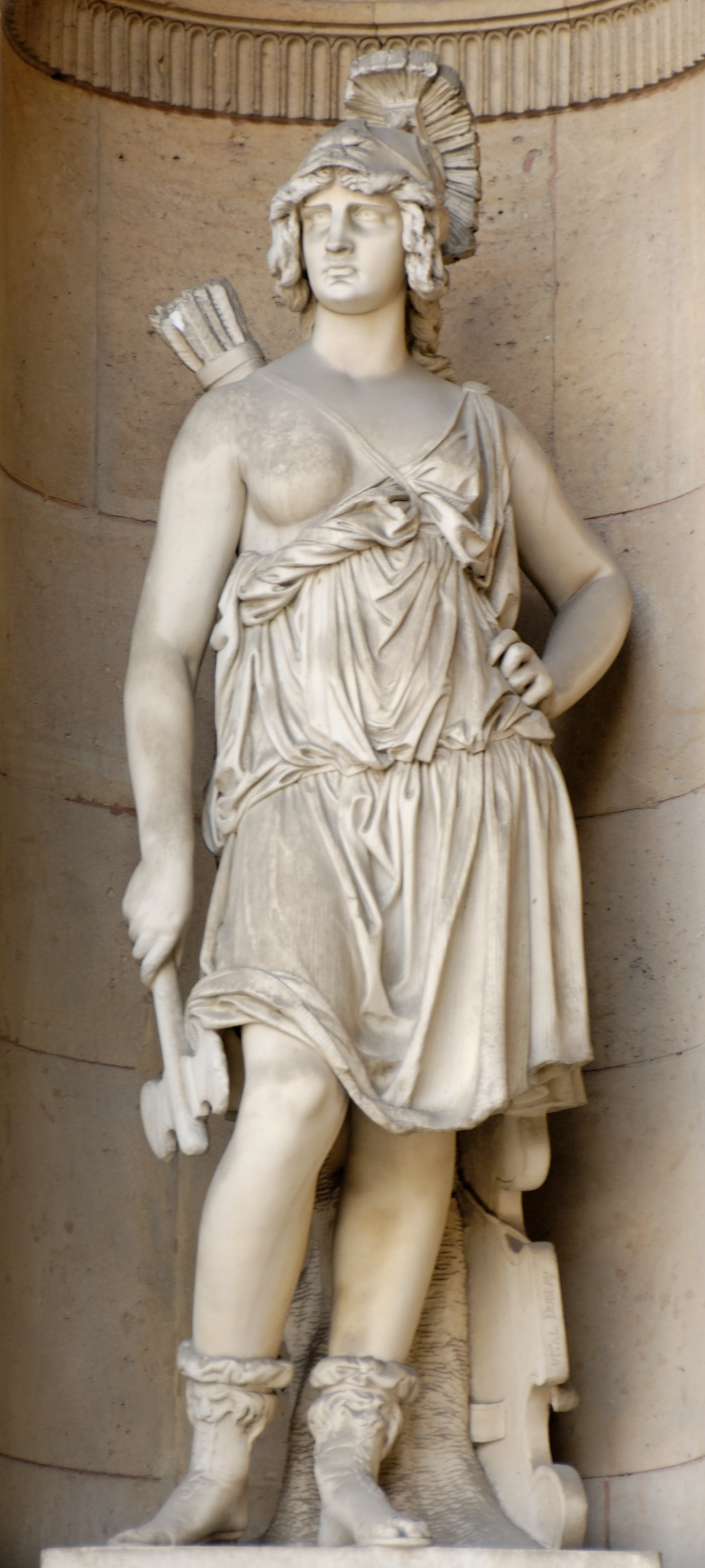 Penthesilea (1862), by Gabriel-Vital Dubray (1813-1892). East façade of the Cour Carrée in the Louvre palace, Paris.